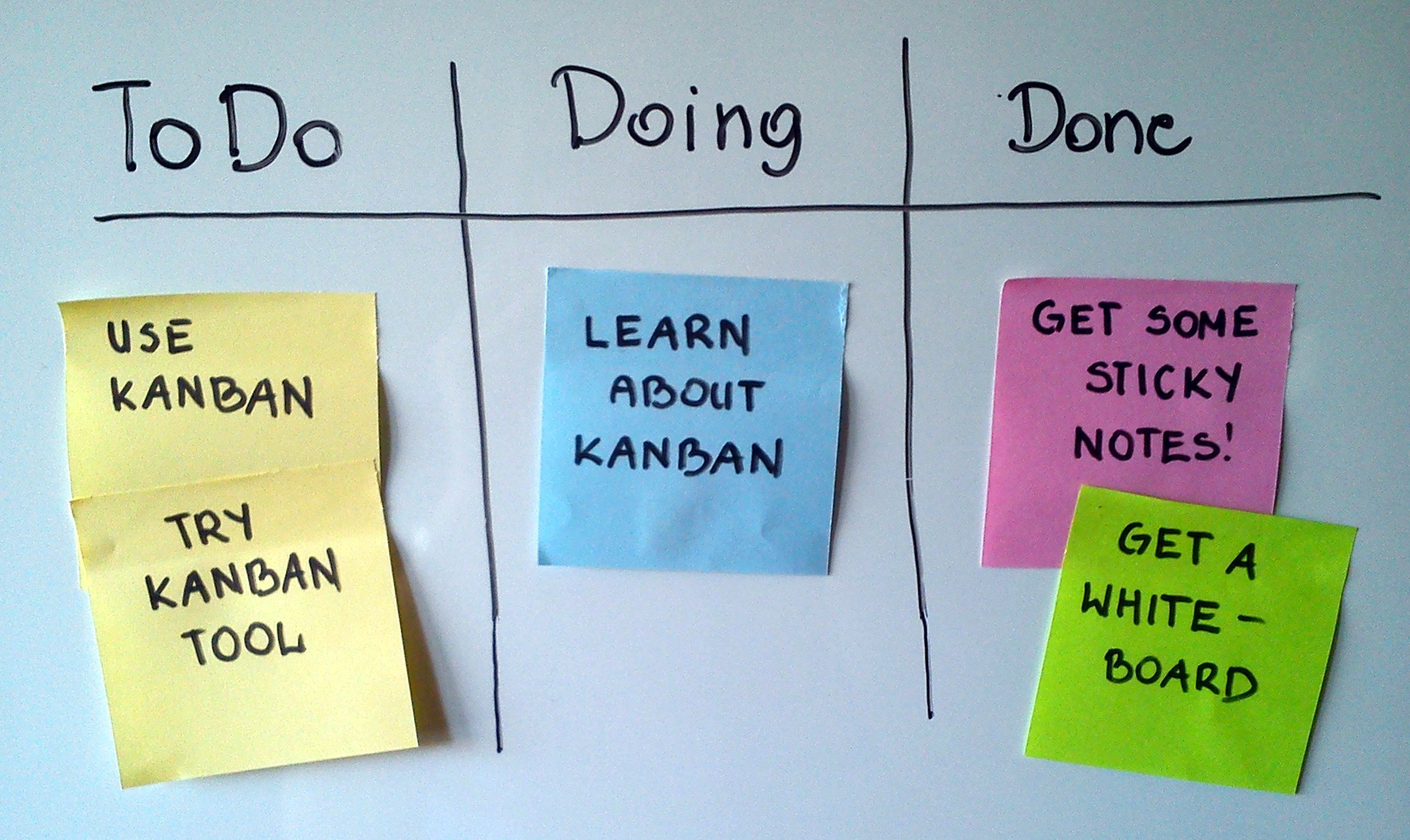 A Scrum board suggesting to use Kanban